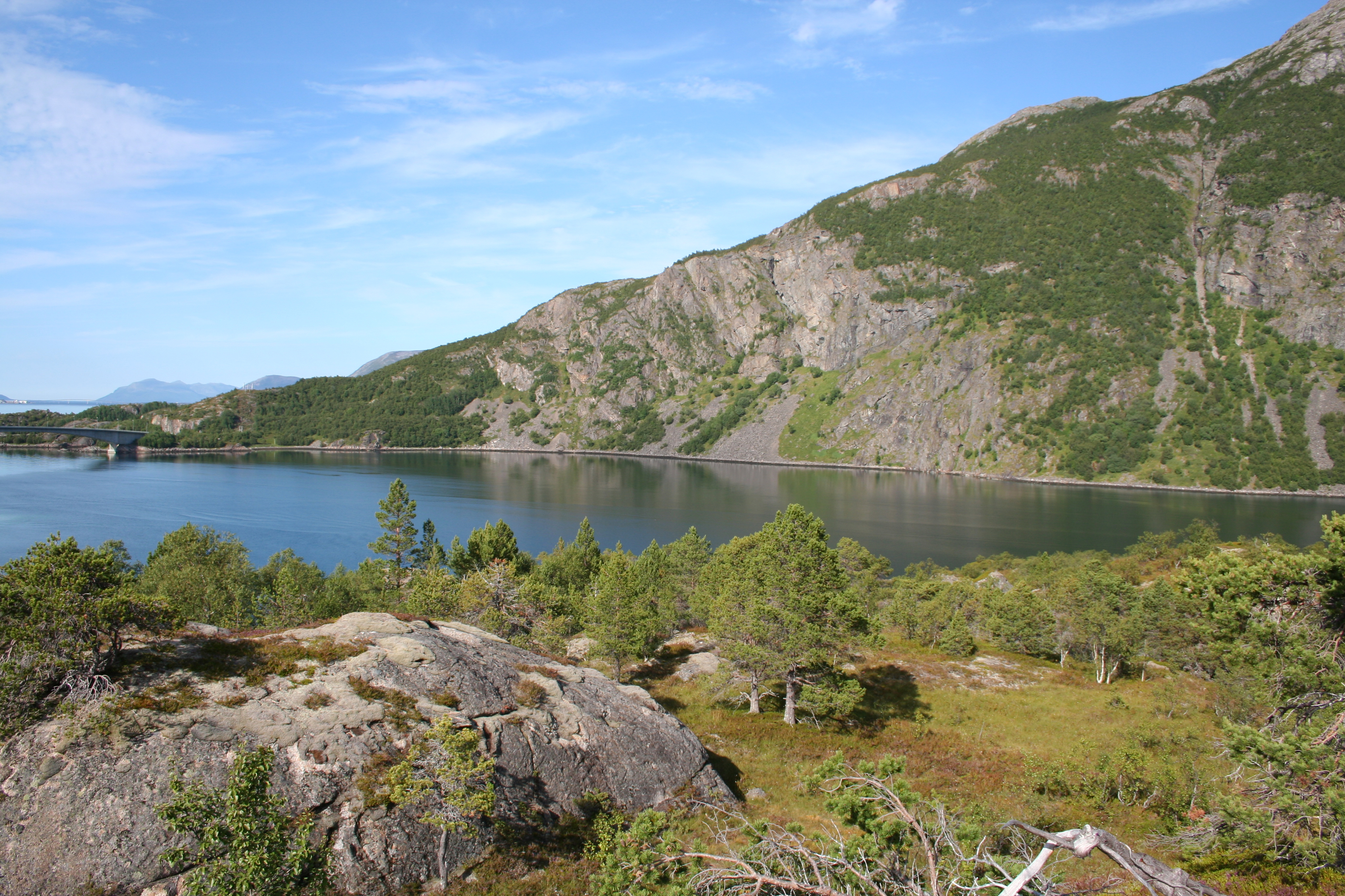 Picture from Djupfjorden, Sortland municipality in Norway. This picture was taken by me on 5 August 2006.